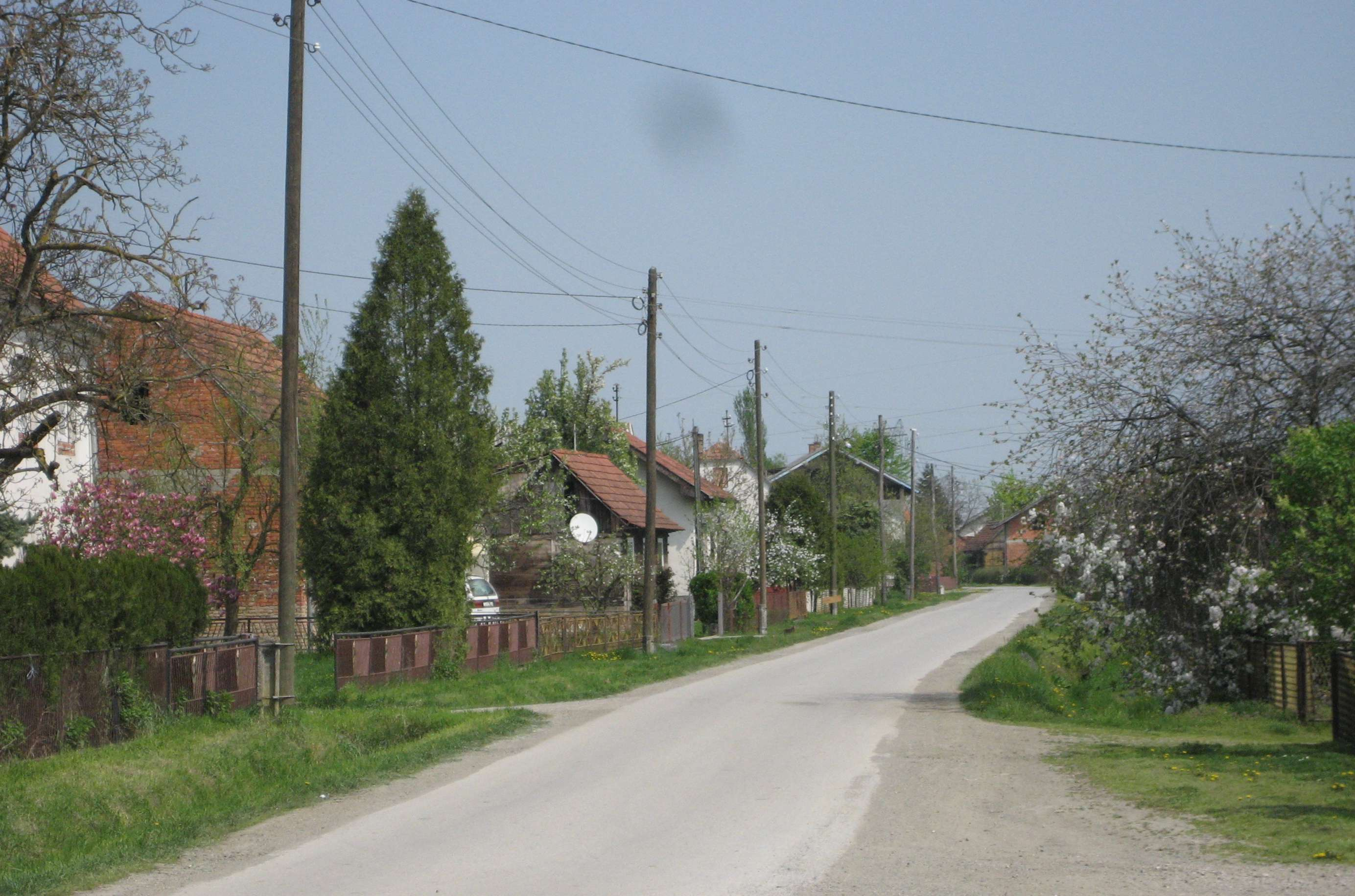 Vezišće, in Croatia. Village where Milka Trnina was born